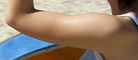 The human upper arm Taken by Enoch Lau on 26 November 2004. As a courtesy, please let me know if you alter this image or this image description page. Original filename was 100_3746.JPG.